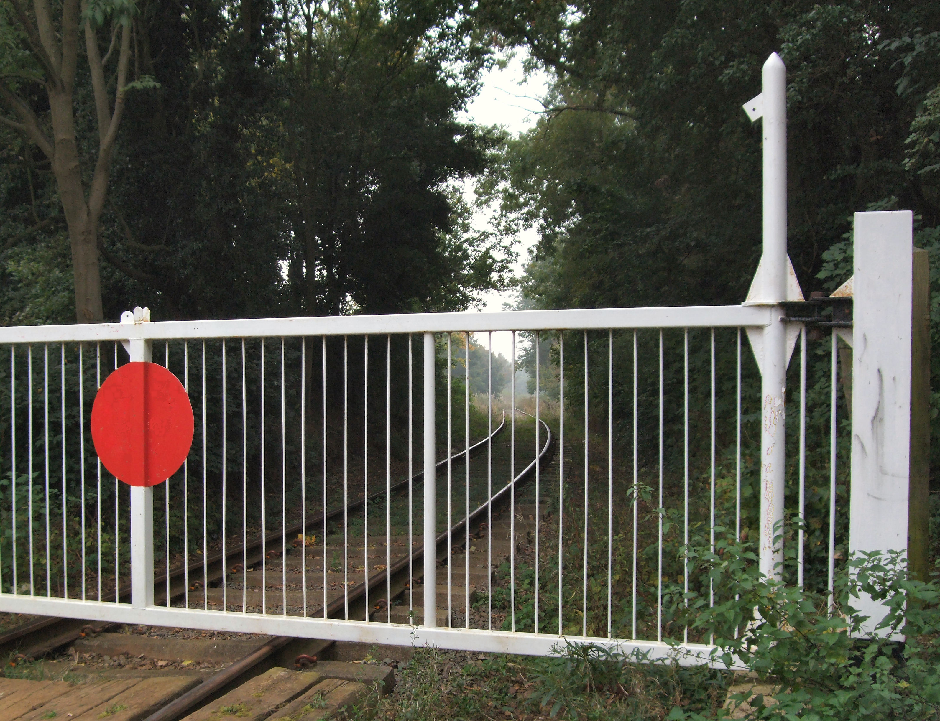 Preserved section of Ironstone Railway, West Hunsbury, Northampton